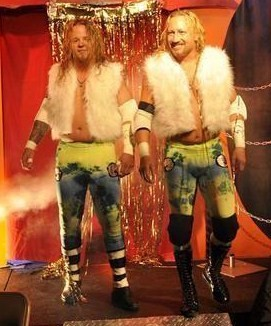 Team Ram-Jam:Jerry "The Ram" Lynn and Grimmy Jam (Adrian Grimm)